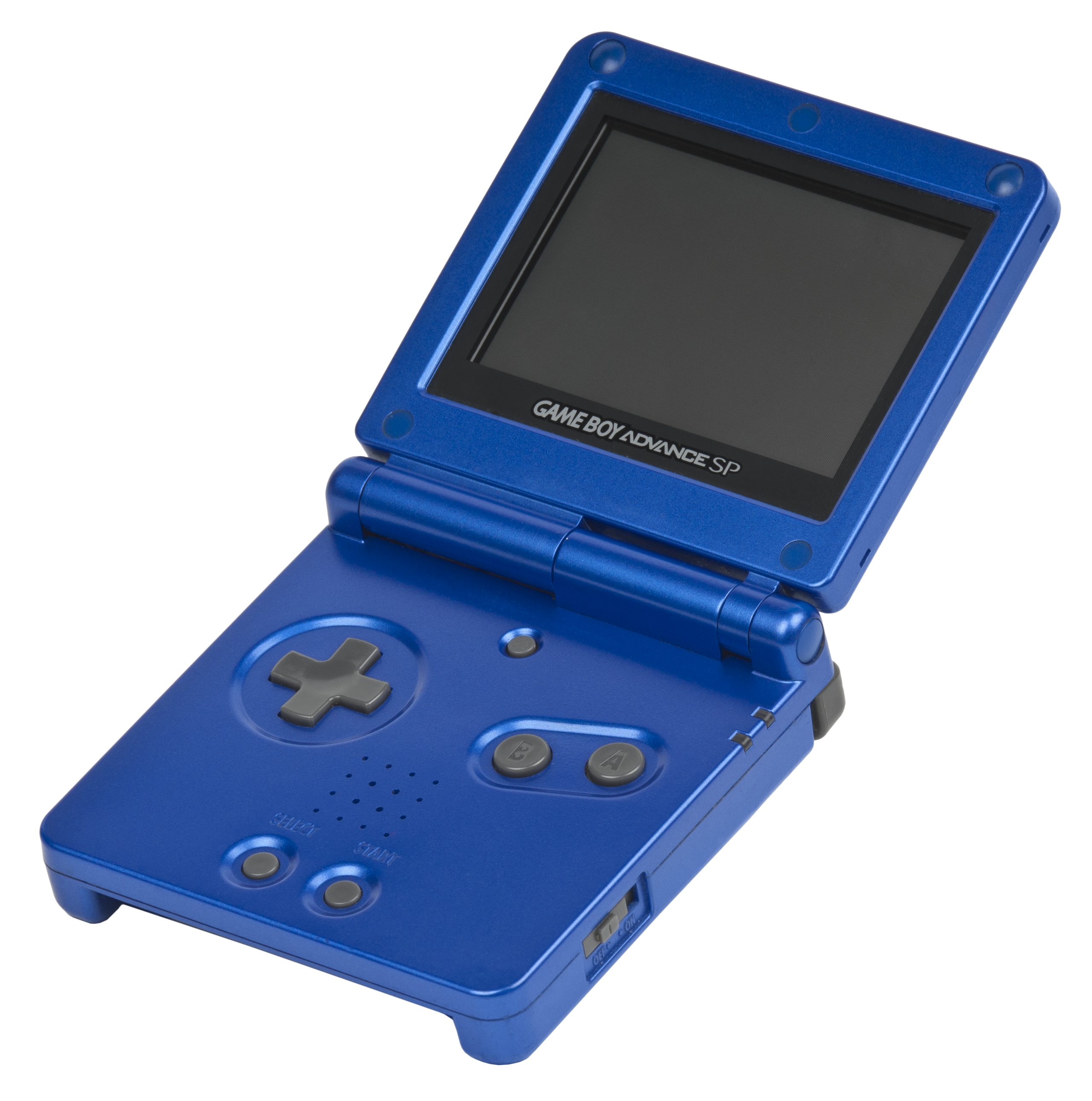 A blue Game Boy Advance SP, a handheld game system made by Nintendo. This is a Mark 1 model that incorporated a front-lit screen.